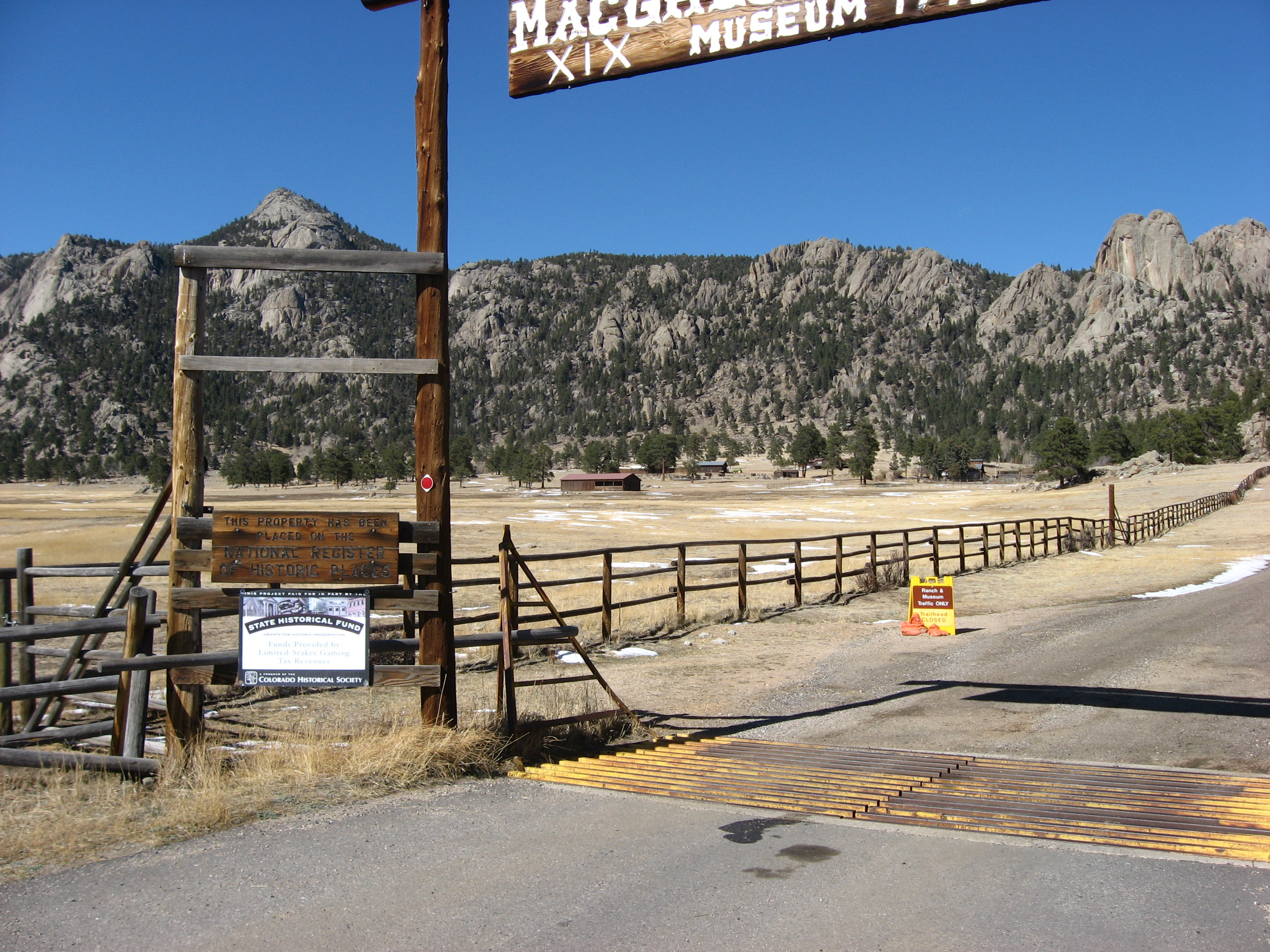 Entrance to the MacGregor Ranch, located at 180 MacGregor Avenue in Estes Park, Colorado, United States, on the far eastern edge of Rocky Mountain National Park. The ranch and its museum are listed on the National Register of Historic Places.